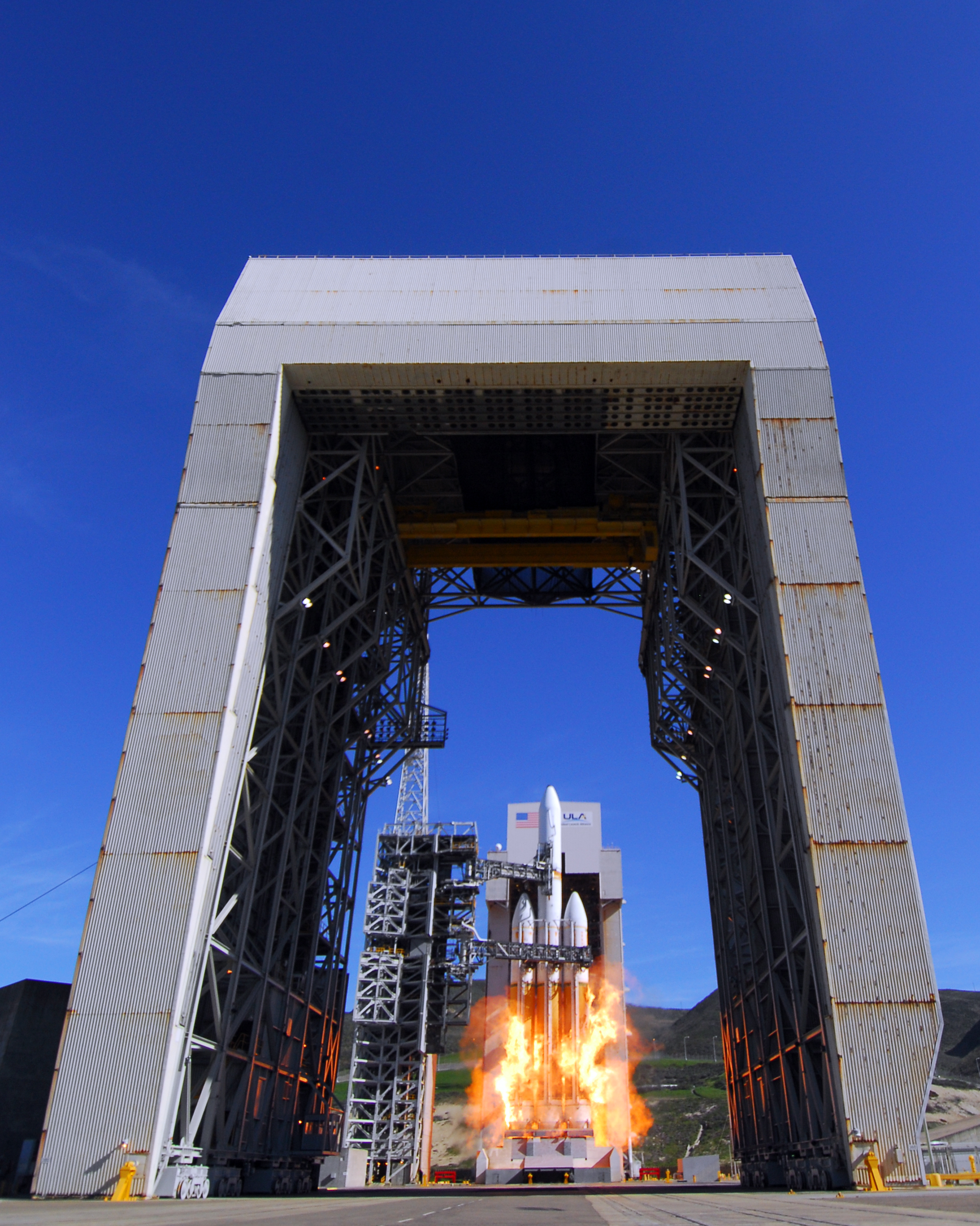 Orginal caption released with the picture: First Delta IV Heavy launches from Vandenberg VANDENBERG AIR FORCE BASE, Calif. - The first West Coast Delta IV Heavy Launch Vehicle was launched from Space Launch Complex-6 here Jan. 20 at 1:10 p.m. PST.